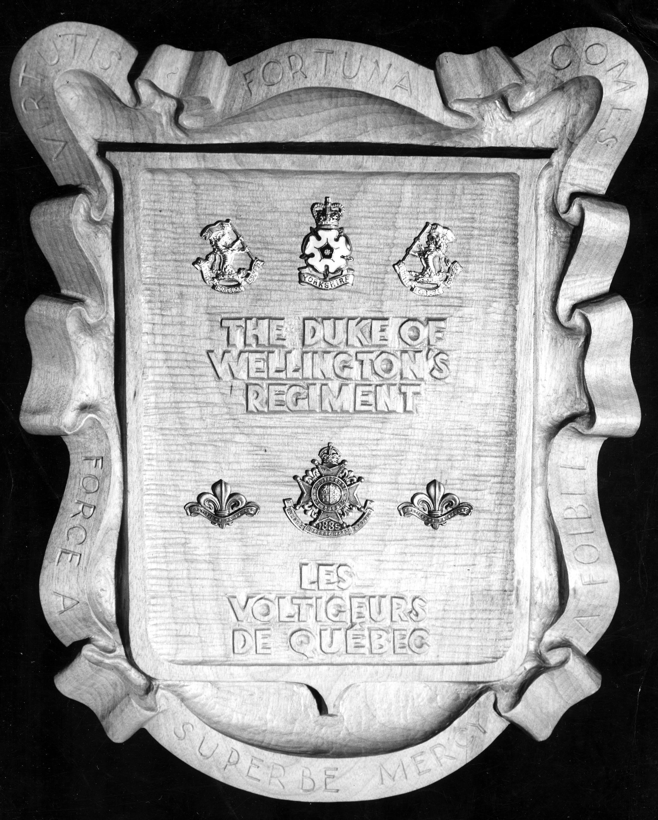 Wooden Plaque, showing regimental affiliation between The Duke ow Wellington's Regiment (West Riding) (UK) and Les Voltigeurs de Québec (Canada)